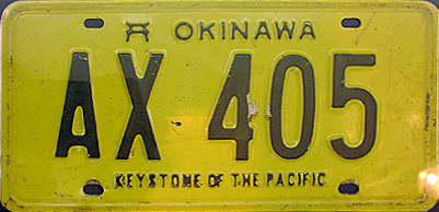 Ryukyu yellow license plate for U.S. military personnel